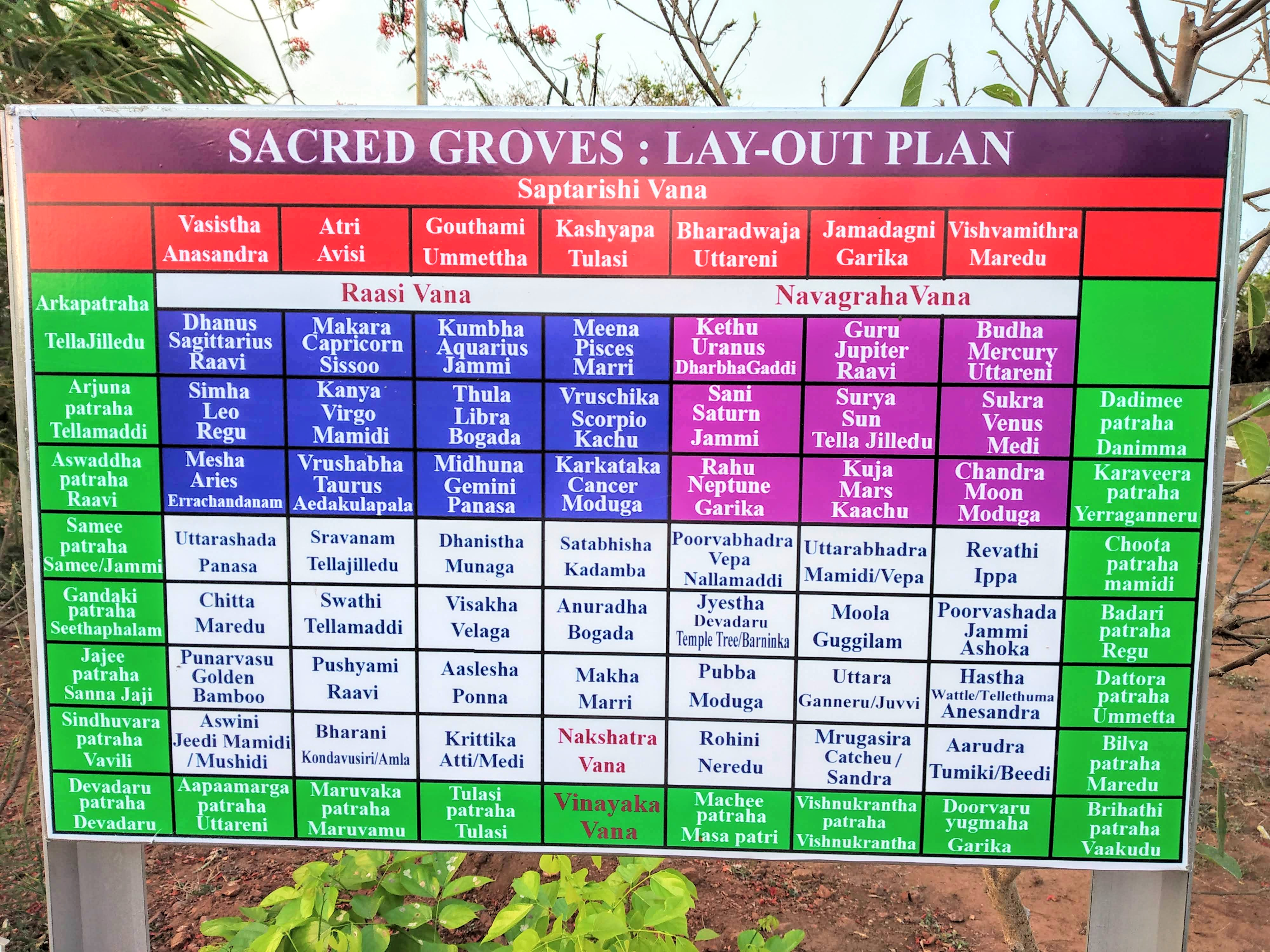 Sacred groves lay out plan Biodiverstiy park, RCD Govt. Hospital, visakhapatnam